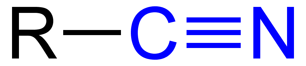 Nitrile structural formula